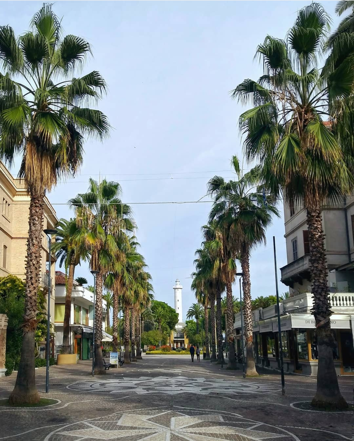 San Benedetto del Tronto, Viale Secondo Moretti with its characteristic palms Washingtonia in the background Piazza Giorgini and the Lighthouse.